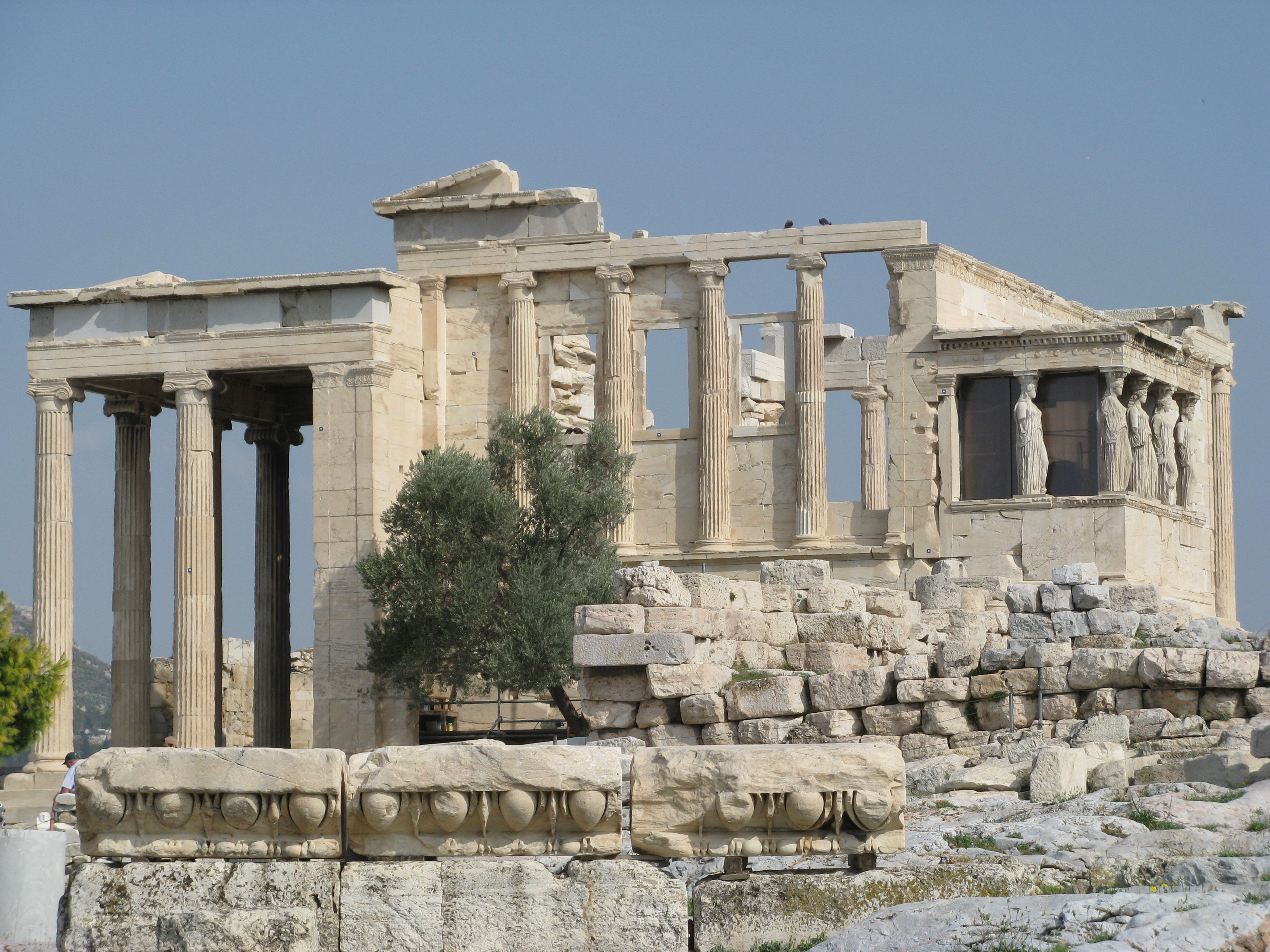 Erechtheum - view from south west, Ionic order.